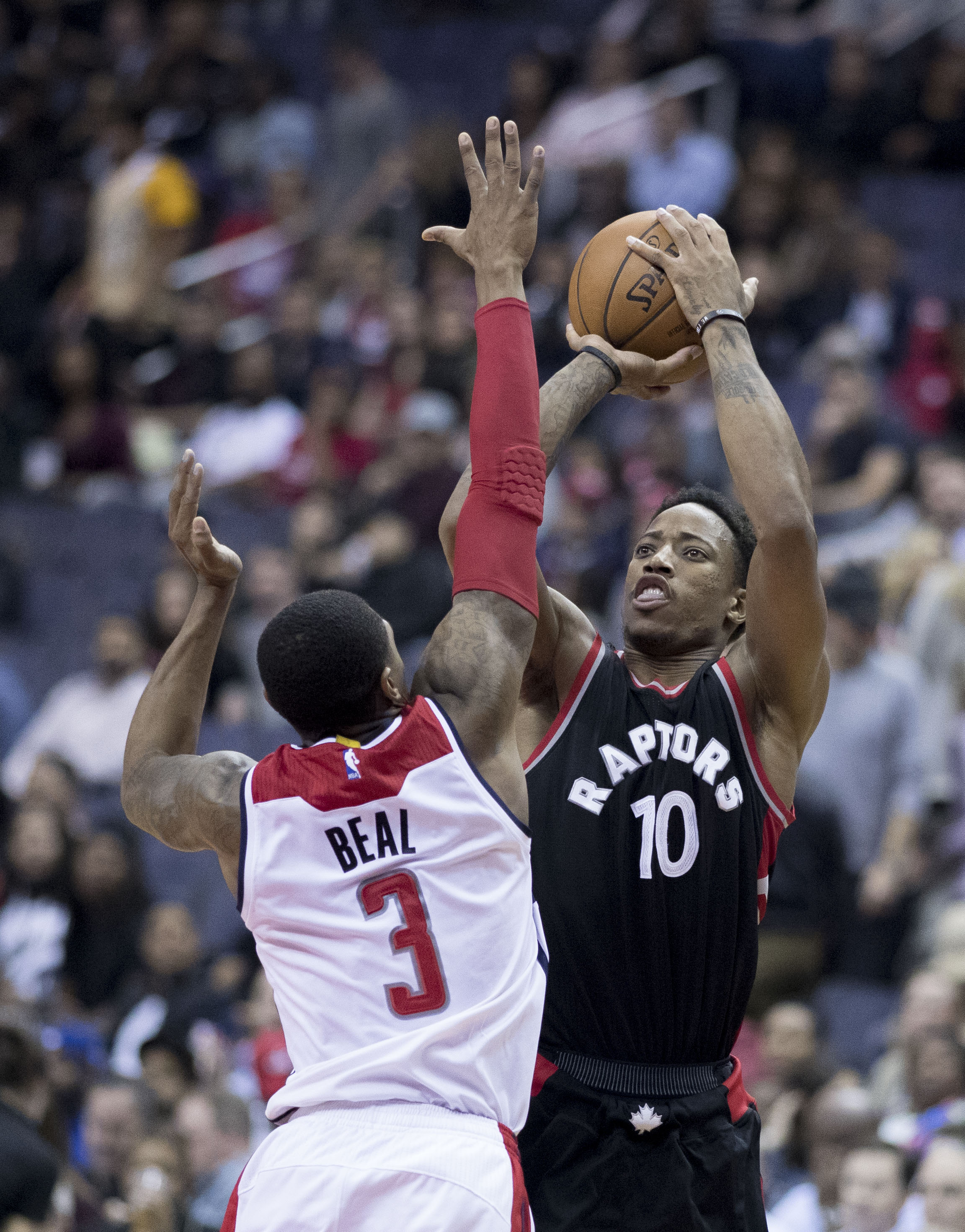 DeMar DeRozan of the Toronto Raptors during a game against the Washington Wizards on November 2, 2016 at Verizon Center in Washington, DC.